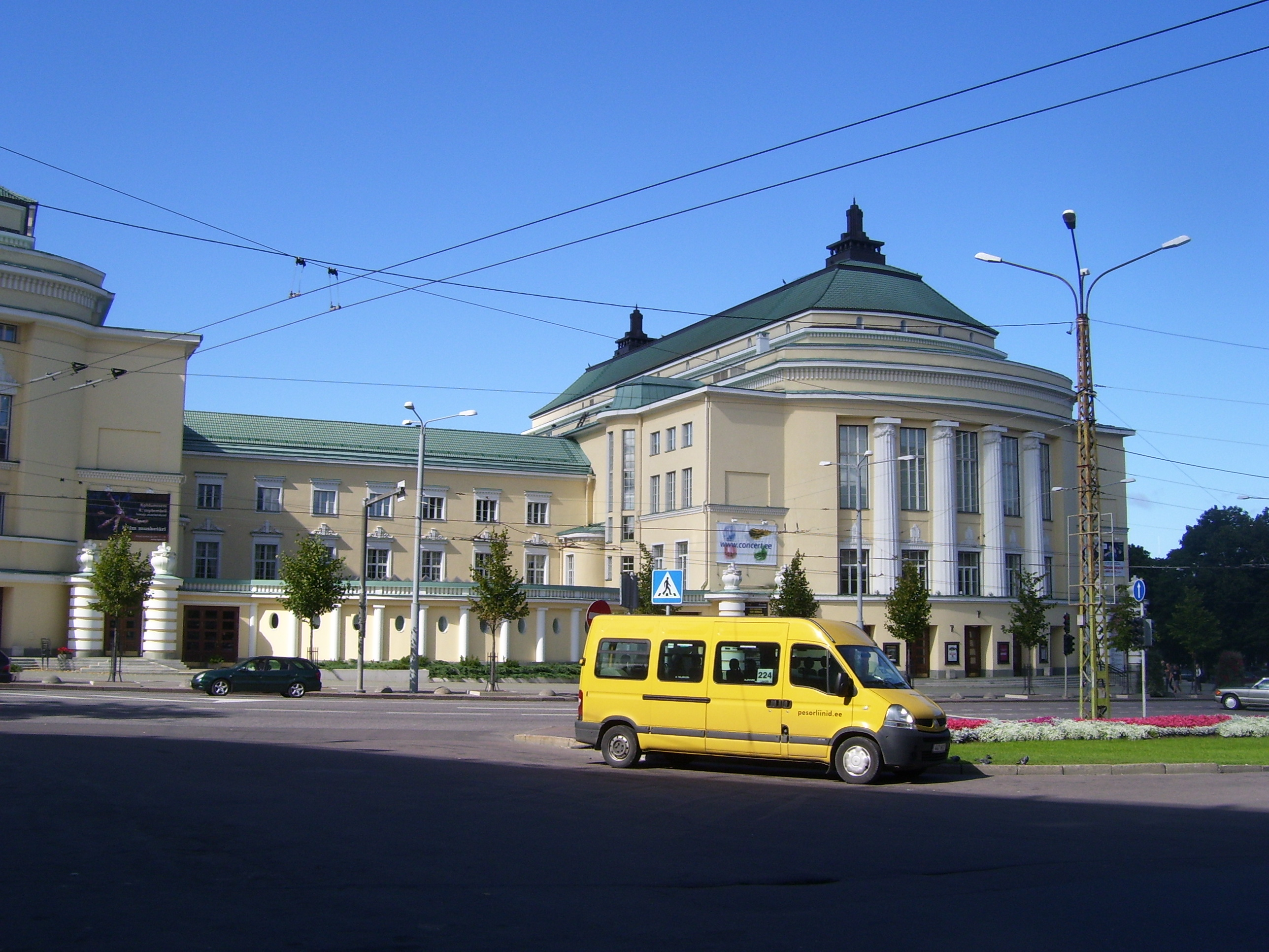 Estonia theatre in the quarter of Südalinn, Tallinn, Estonia.